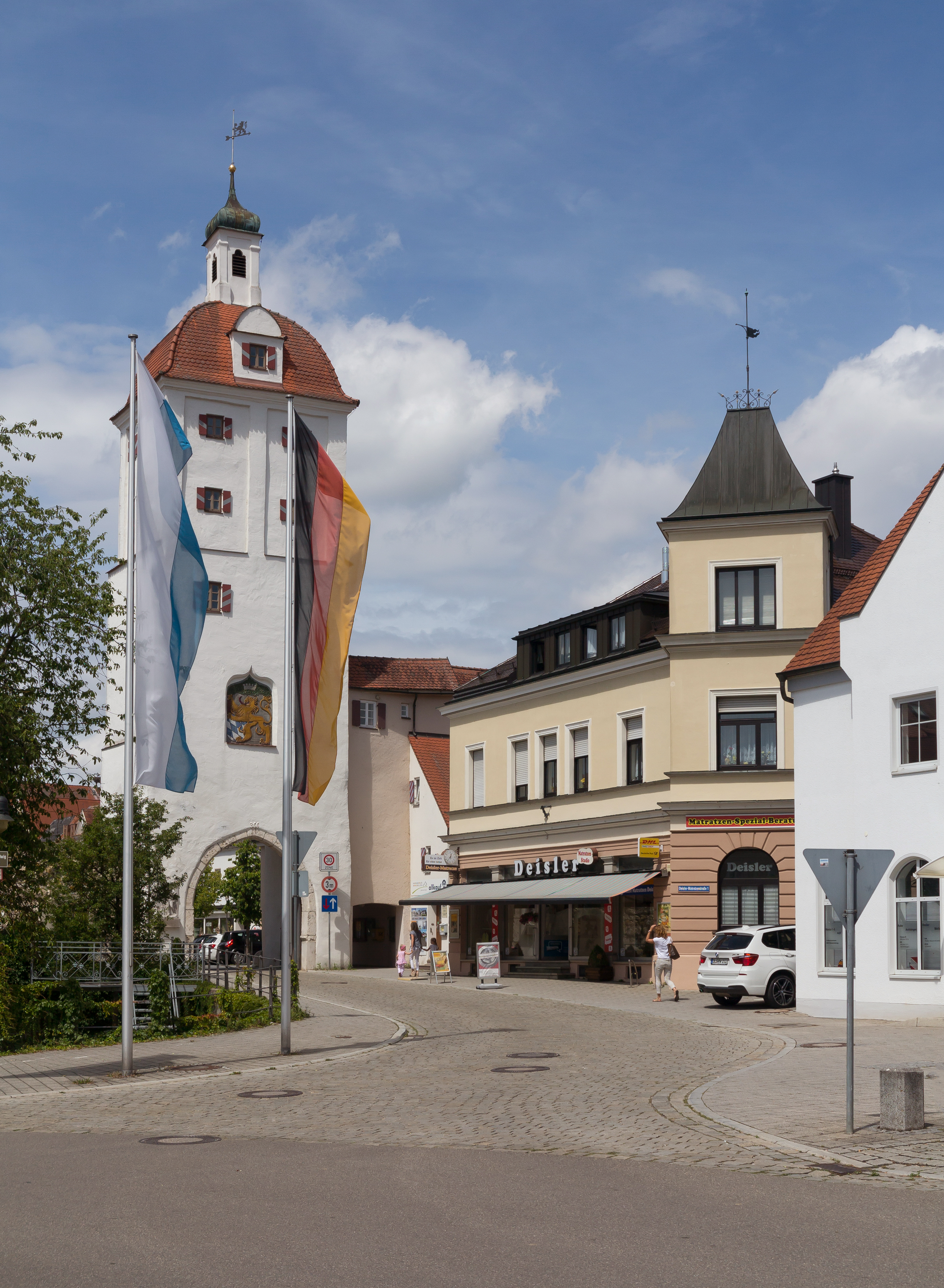 Gundelfingen an der Donau, gate: Unteres TorThis is a photograph of an architectural monument.